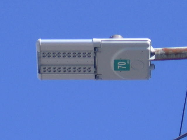 History of street lighting- Beta LED - Type 3 STR-LWY-1S-HT - 70 watt version